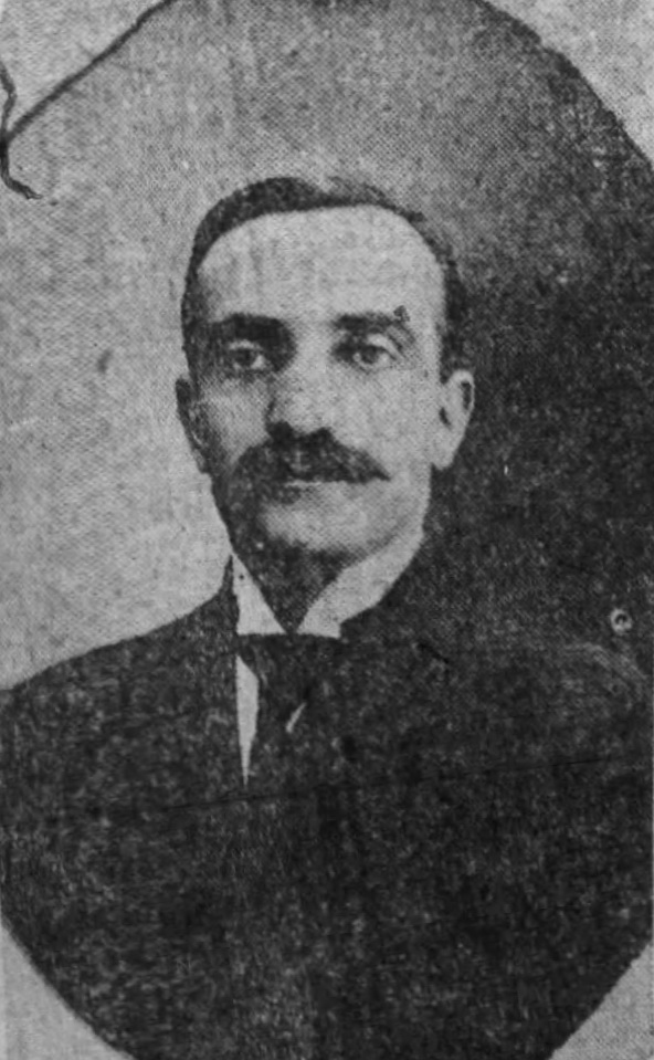 Shua Ullah Behai, Grandson of Beha'ullah, upon arrival to the US